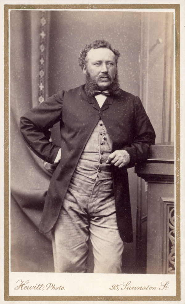 Photo of Captain Pearceref